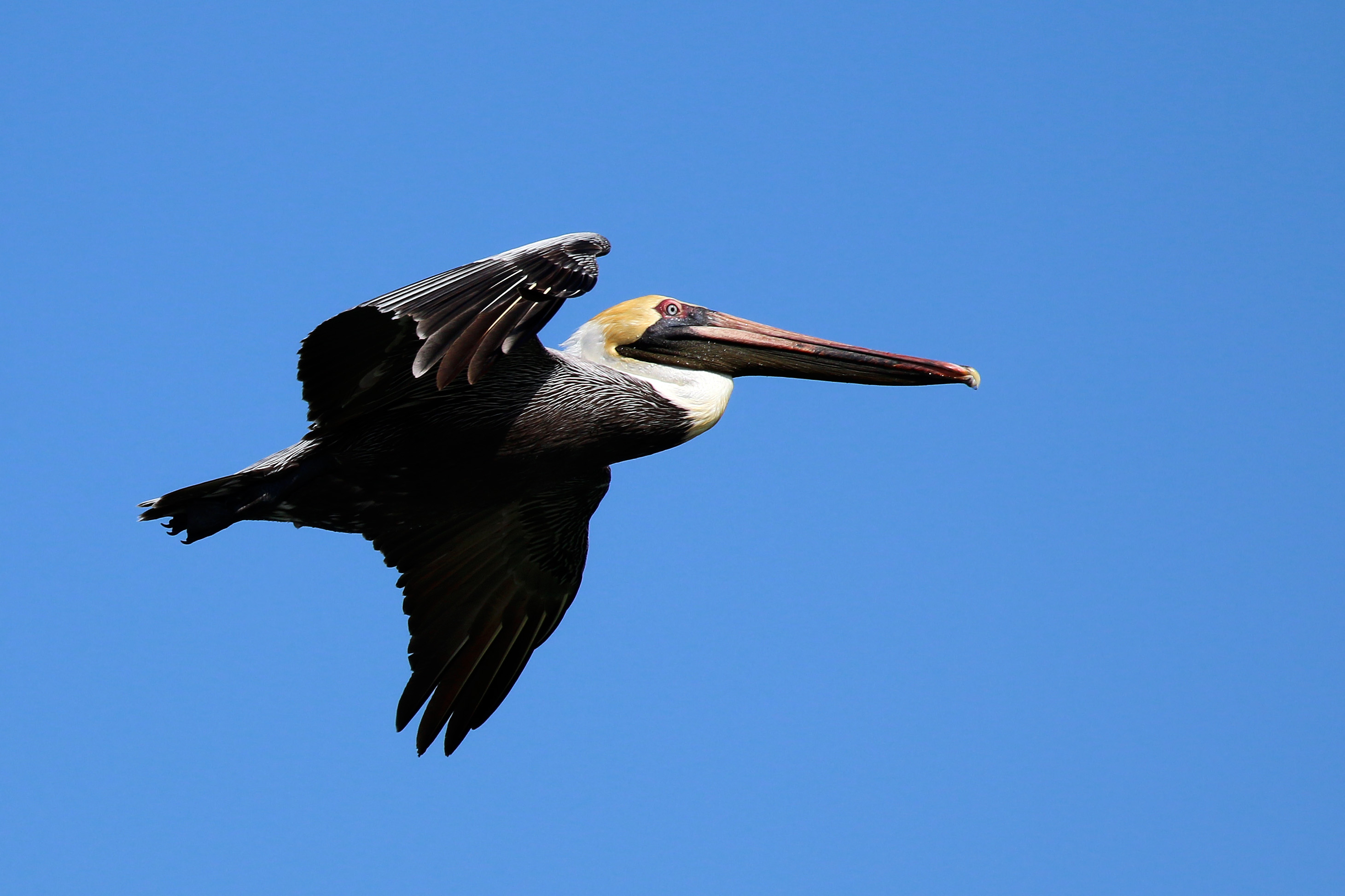 Brown pelican (Pelecanus occidentalis), non-breeding plumage, Cuba